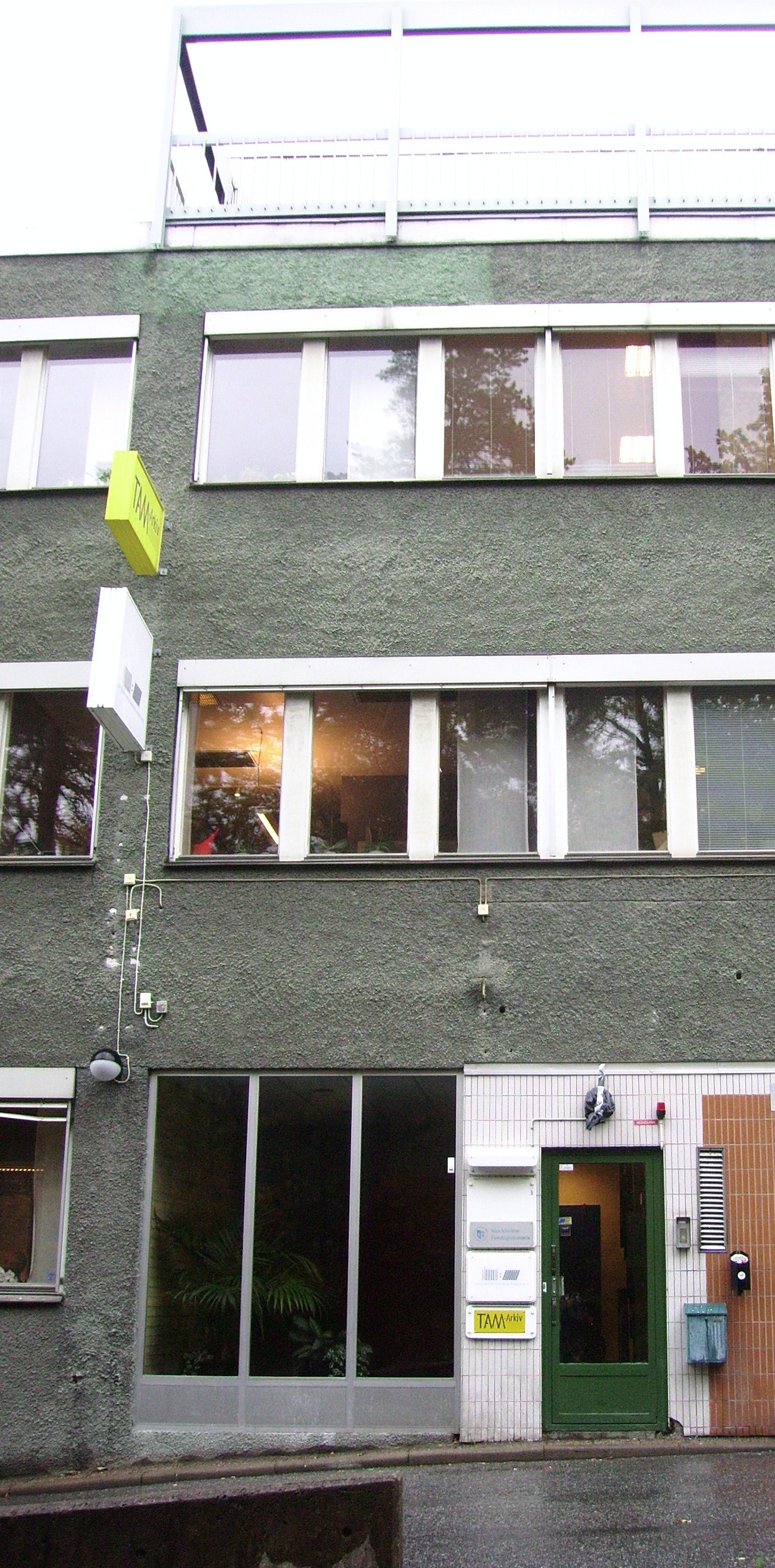 Picture of TAM-arkivet in Alvik, Stockholm